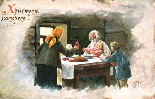 Old-Russian-Easter-Postcard.